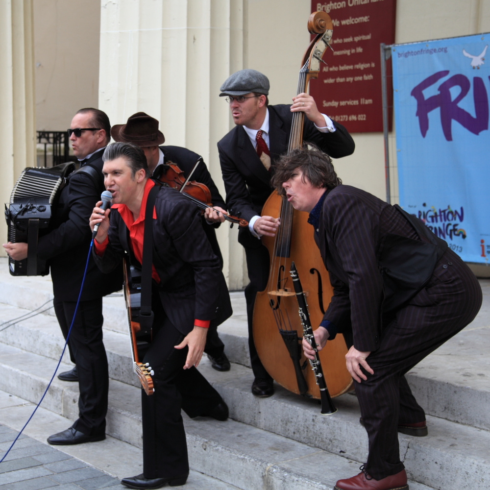 Mikelangelo and the Black Sea Gentlemen performing at the 2013 Brighton Fringe Festival